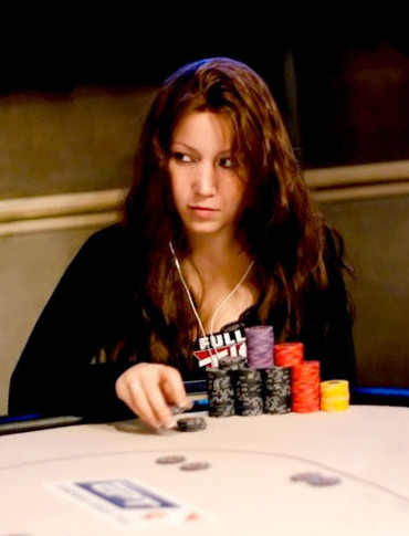 Melanie Weisner at the main event of EPT Barcelona